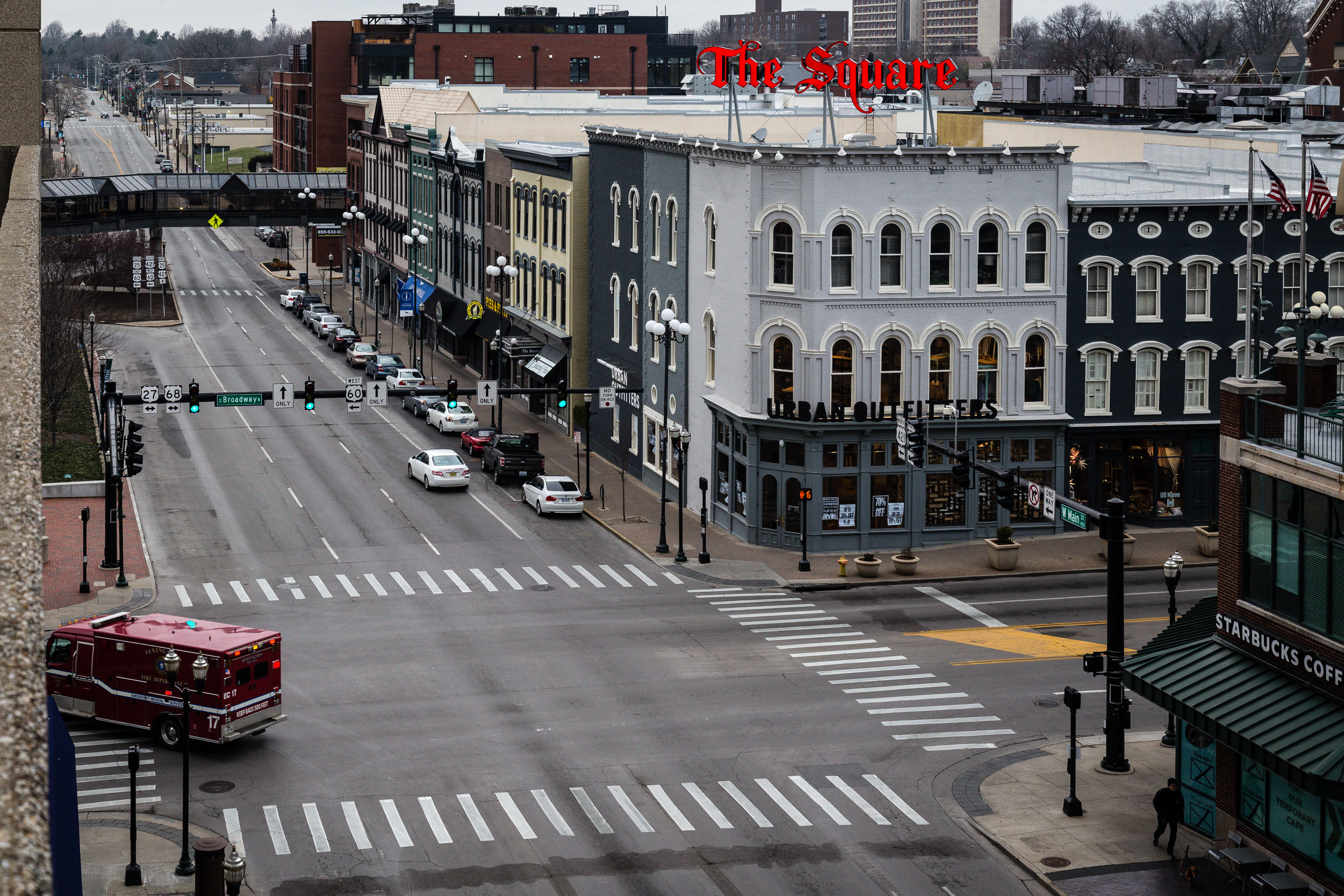 A beautiful downtown